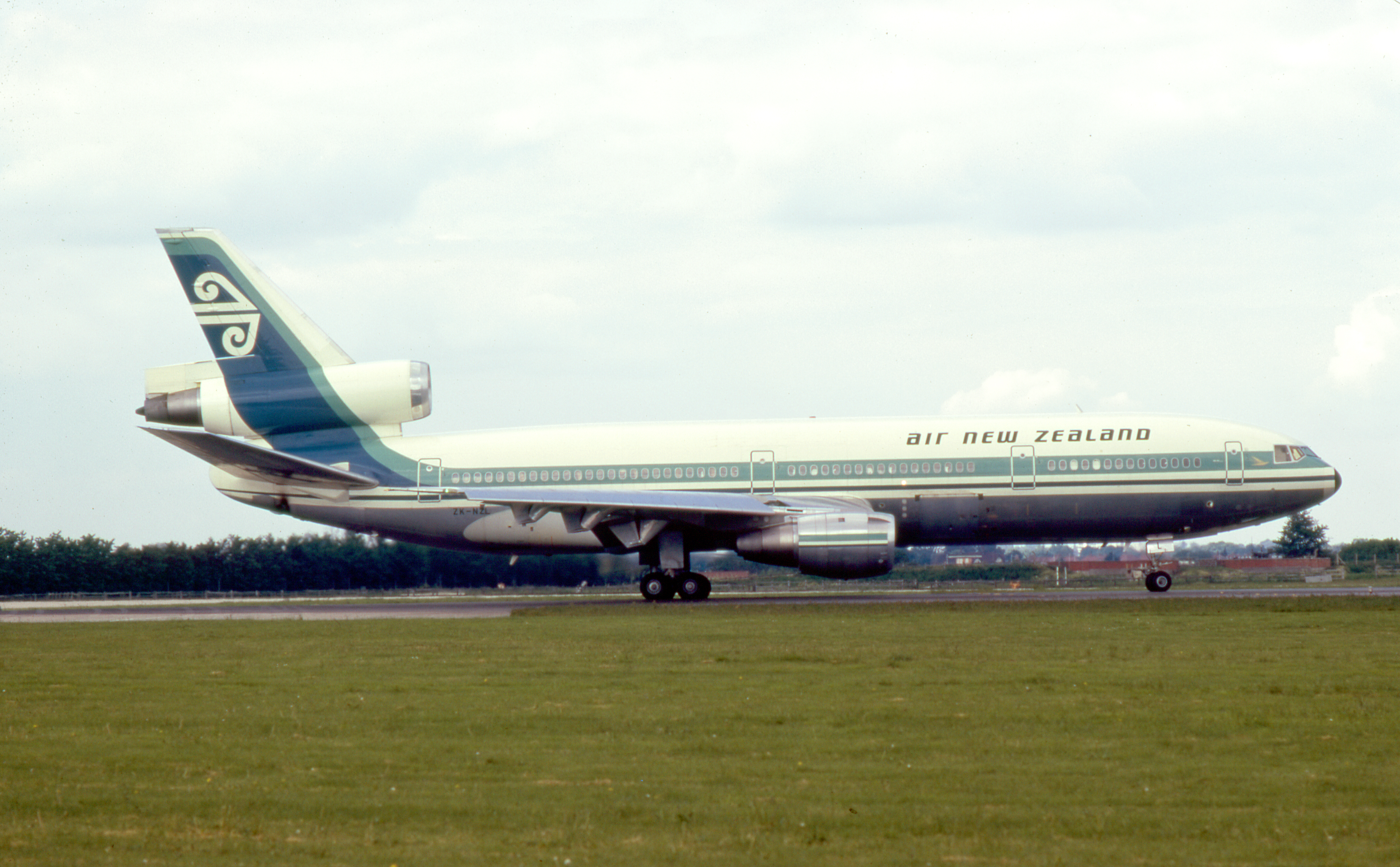 McDonnell Douglas DC-10-30 aircraft of Air New Zealand at London Heathrow Airport in 1977.